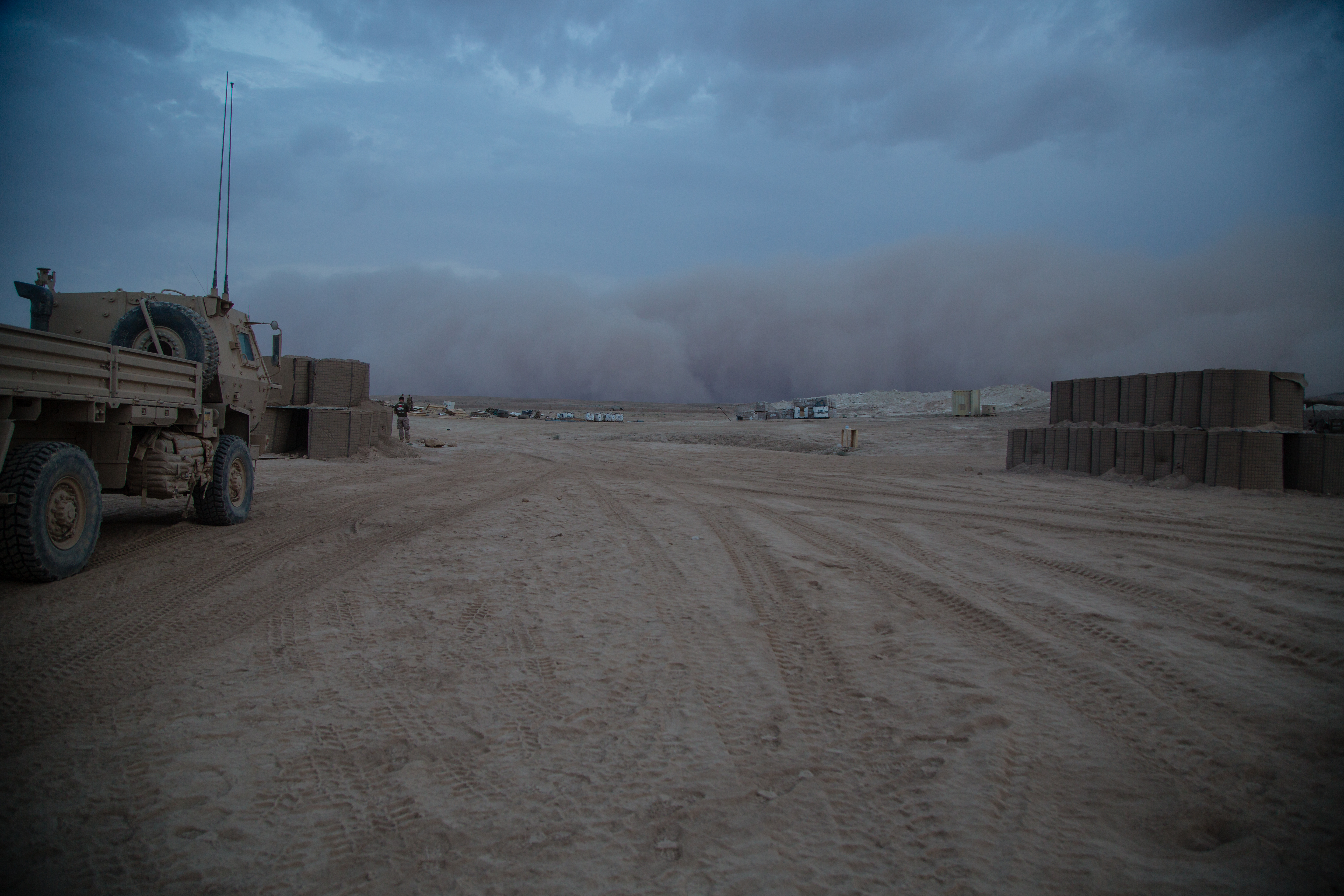 A sand storm approaches a remote location near the Iraqi-Syrian border where Soldiers with the 3rd Cavalry Regiment conduct fire missions alongside Iraqi partners, June 23, 2018. U.S. Army photos by Pfc. Anthony Zendejas IV.